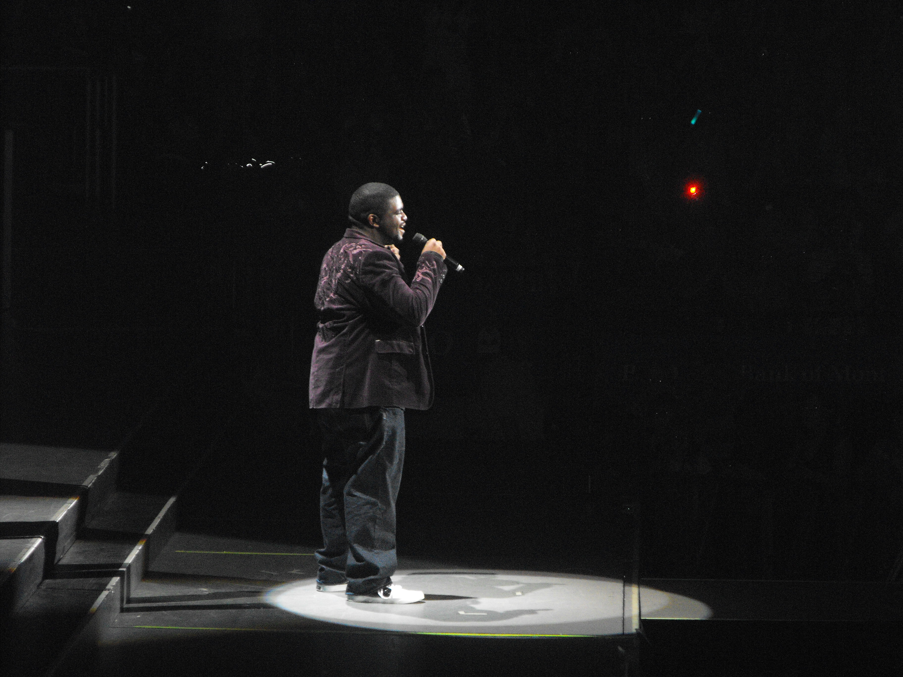 This photo depicts the American singer Chikezie performing during American Idol's season 7 tour.